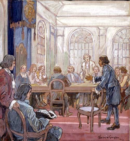 Illustration représentant la création du Conseil souverain en Nouvelle-France en 1663. Le conseil tient sa première séance le 18 septembre 1663, à Québec. Celui-ci reste en fonction jusqu'à la Conquête.